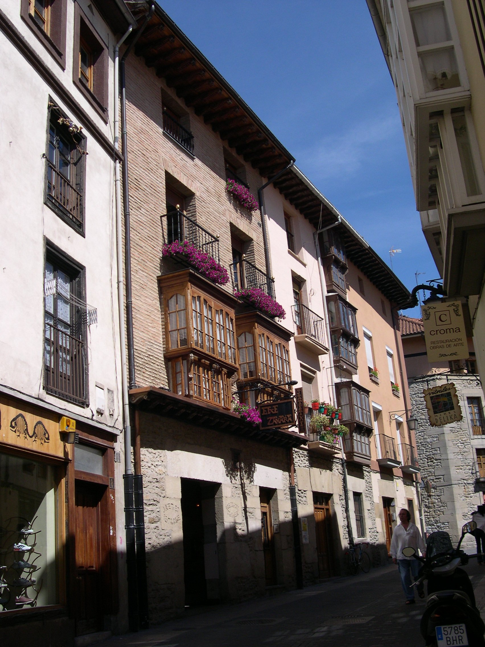 Vitoria-Gasteiz. Araba